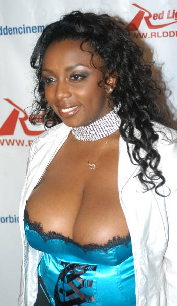 February 10, 2007: On adult industry party to celebrate the release of movie Chasey Reloaded.